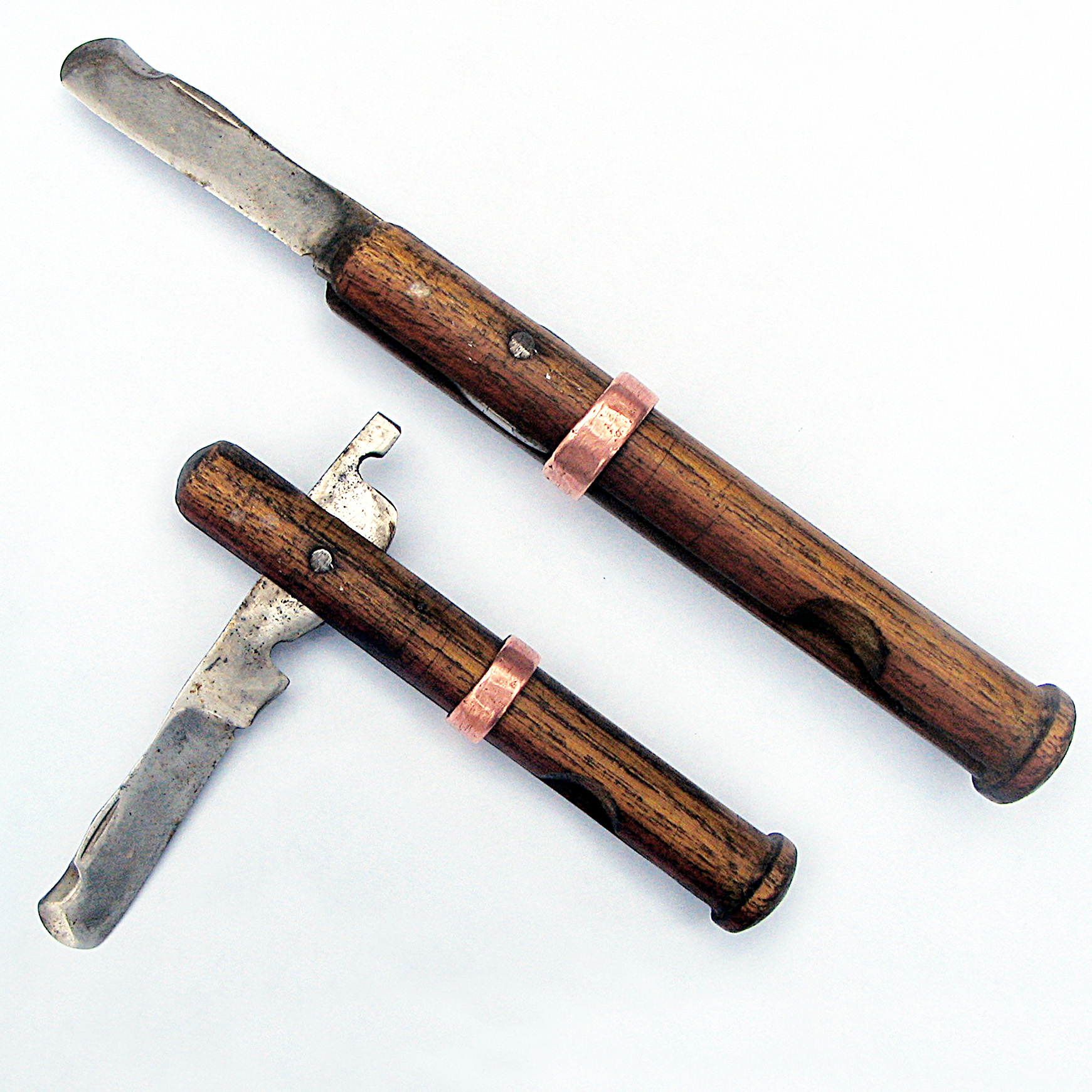 Self-Made bud-grafting knife Segedinac (Tree Nursery "Džambula", Subotica)